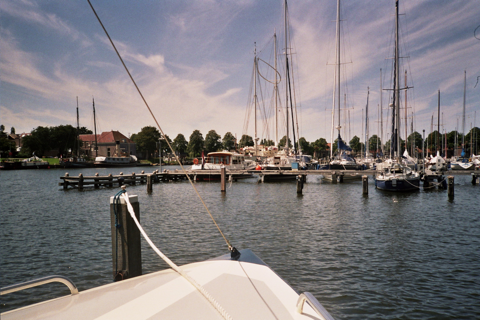 Medemblik, The Netherlands, Marina